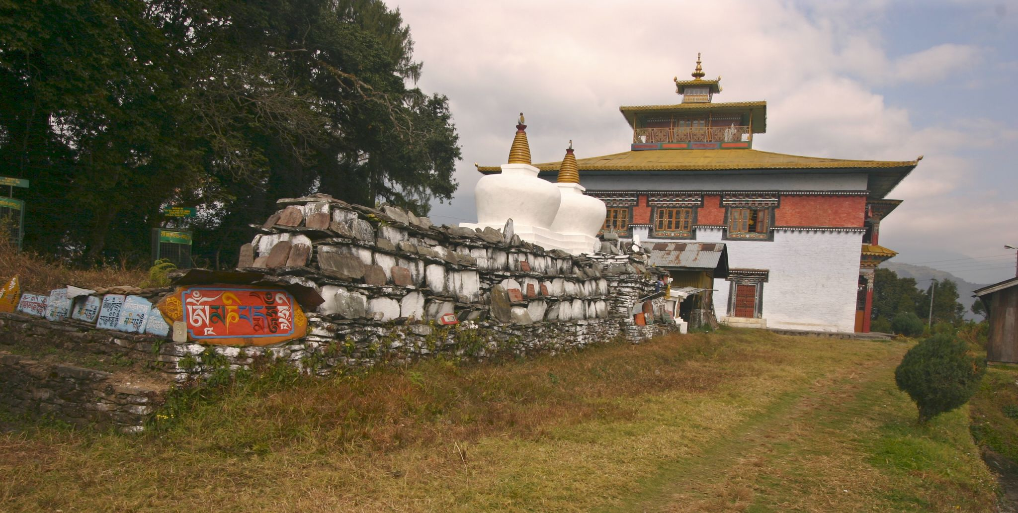 Tashiding Monastery. This important monastery belonging to the Nyingmapa order was built on top of a hill that looms up between the Rathong river and the Rangit river, where a rainbow emanating from Mount Khangchendzonga came to an end. At first only a small Lhakhang was built by Ngadak Sempa Chempo inthe 17th Century. The main monastery was built by Pedi Wangmo during the reign of Chakdor Namgyal and some of the statues built then still exist. Carved skillfully on flagstones surrounding the monastery are holy Buddhist mantras like "Om Mane Padme Hum" .